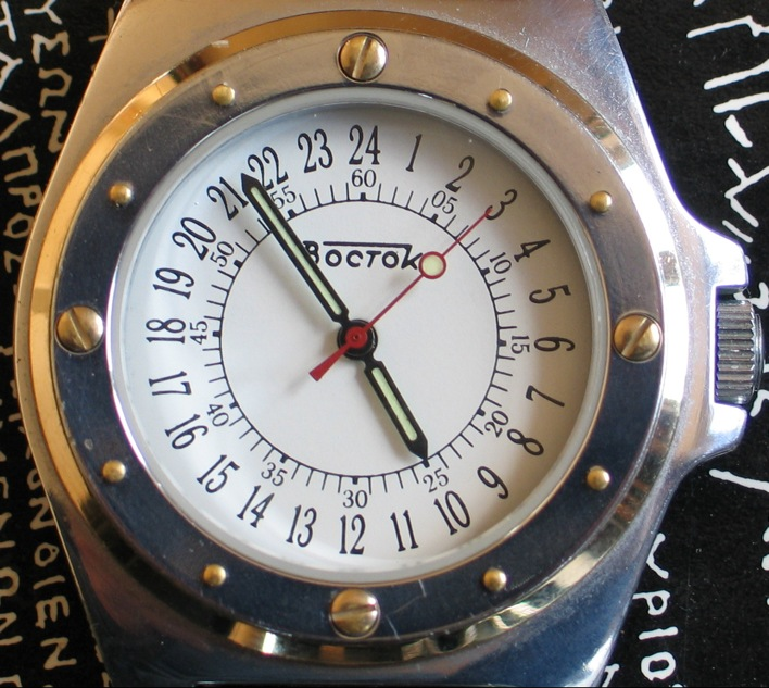 My Vostok 24 hour watch, reading 09:54. The Vostok range of watches is inexpensive. The design is reasonable without being exceptional. Timekeeping is reasonable for a mechanical watch, but at this price is easily beaten for accuracy by a quartz movement.